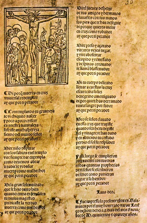 Cover of Lucas Fernández's "Farsas y Églogas".